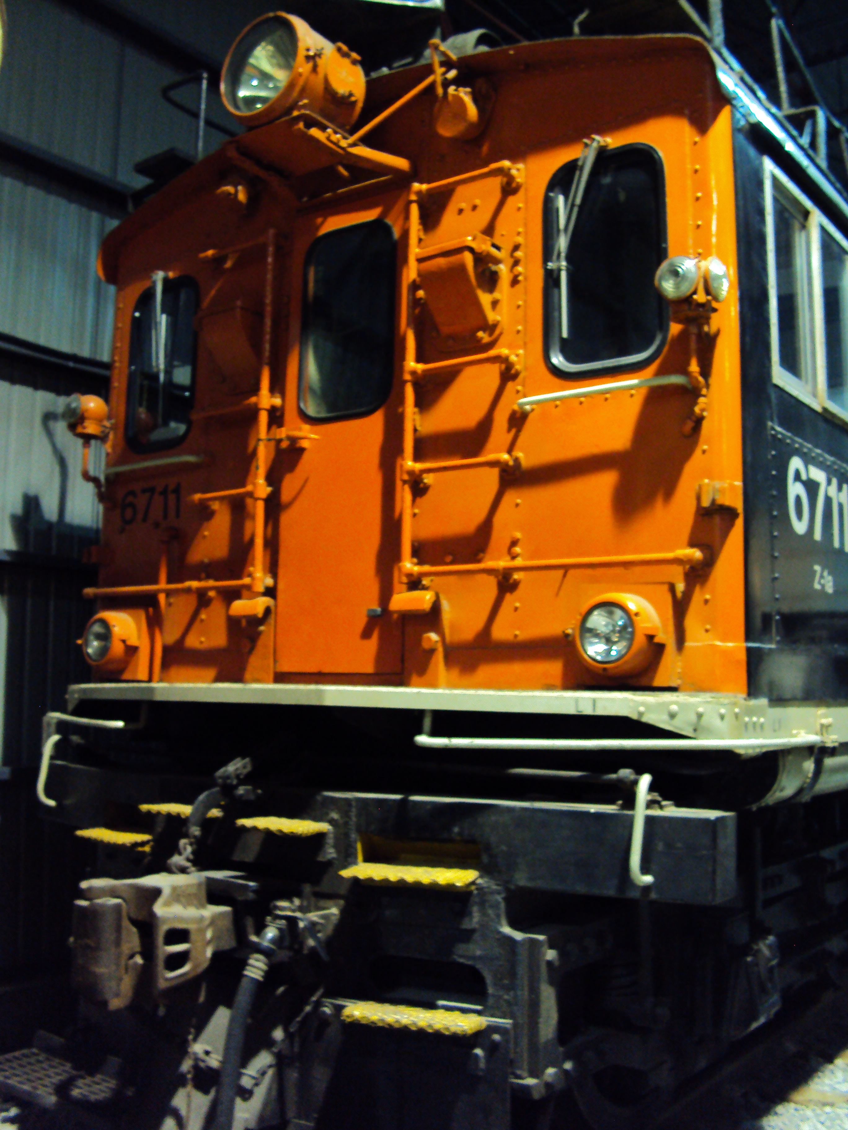 General Electric Z1A Boxcab Electric Locomotive built in 1914 as Canadian Northern Railway (CNoR) 601.